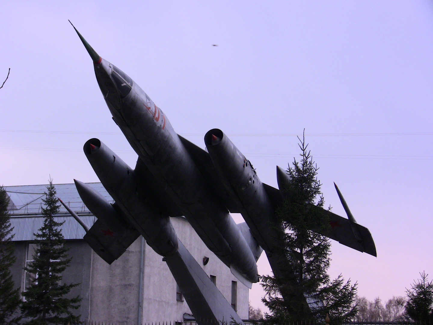 Yak statue at Aviation Military Academy Barnaul